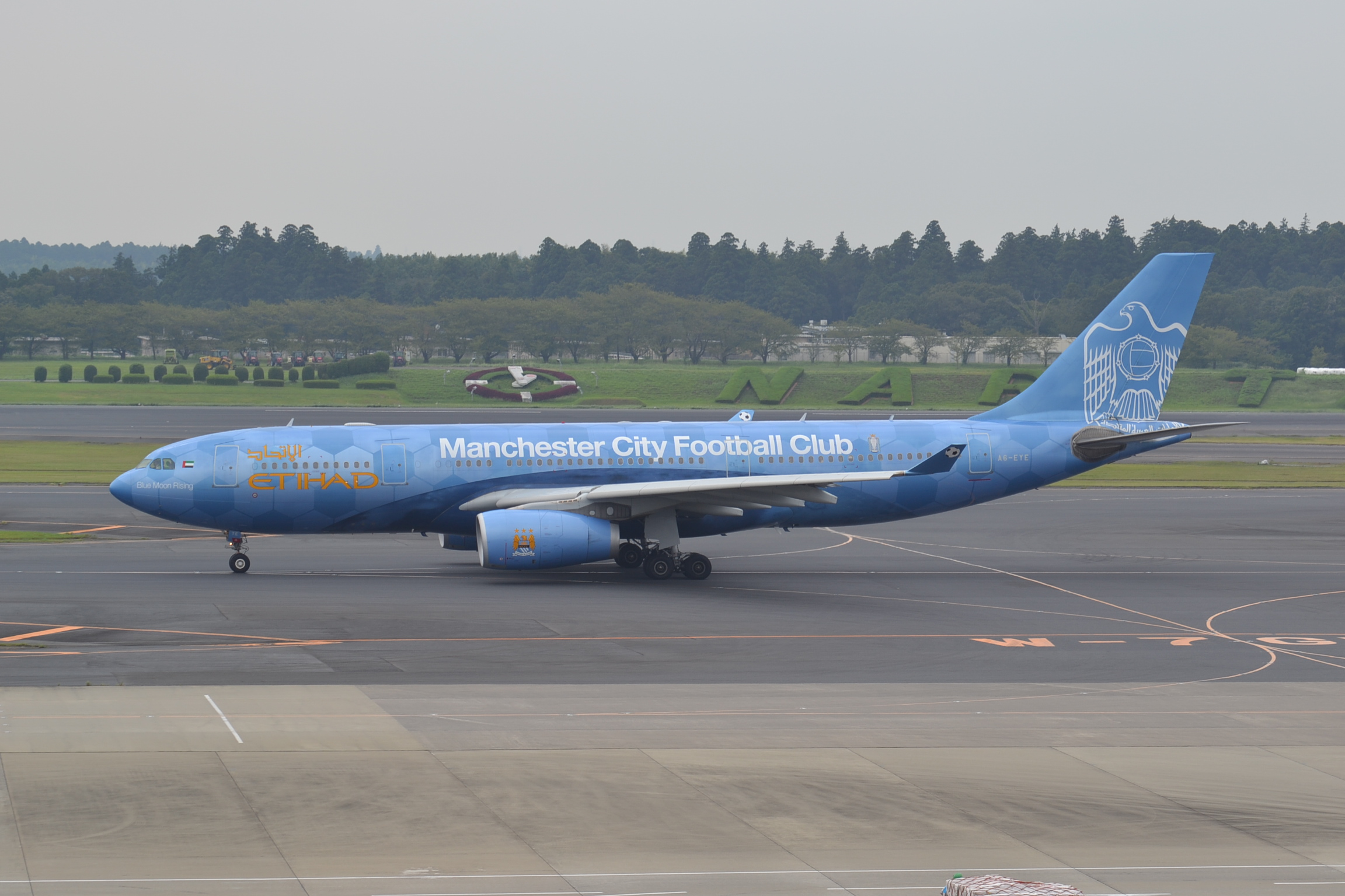 Airbus A330 of Etihad Airways in Manchester City Football Club spl.clrs. & titles at Tokyo Narita-NRT,Japan,07/09/13.